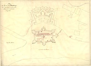 1707-1710 plan of the peter and paul fortress in sankt petersburg